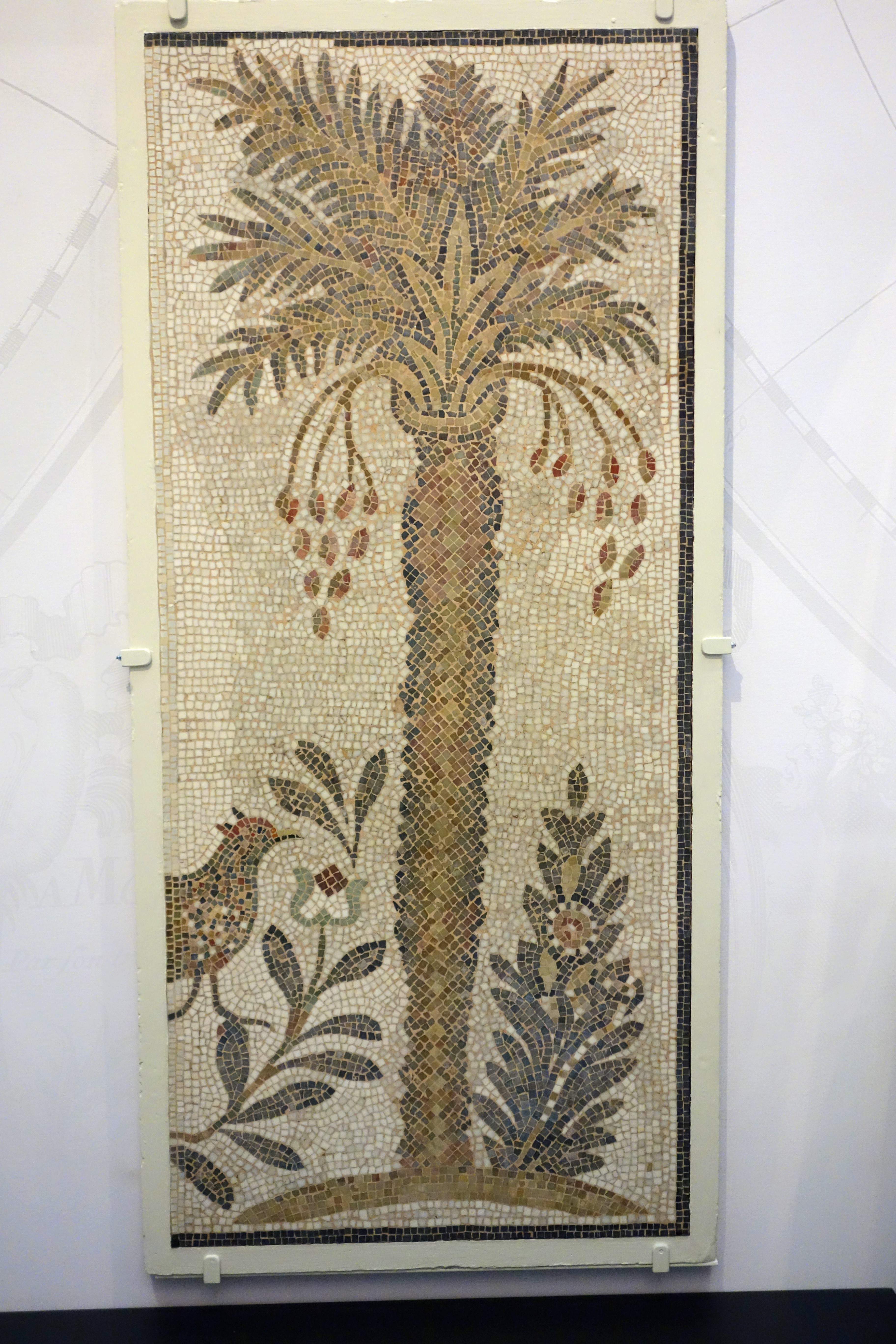 Exhibit in the Brooklyn Museum - Brooklyn, New York, USA. This artwork is in the public domain because the artist died more than 70 years ago.